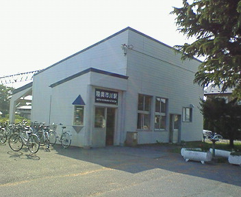 Mutsu-Ichikawa Station